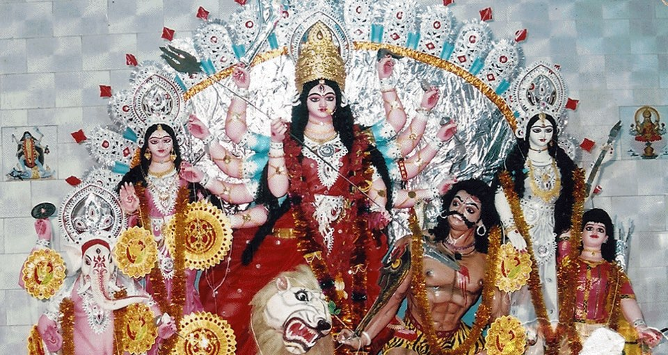 Worshiping Goddess Durga at a temple.